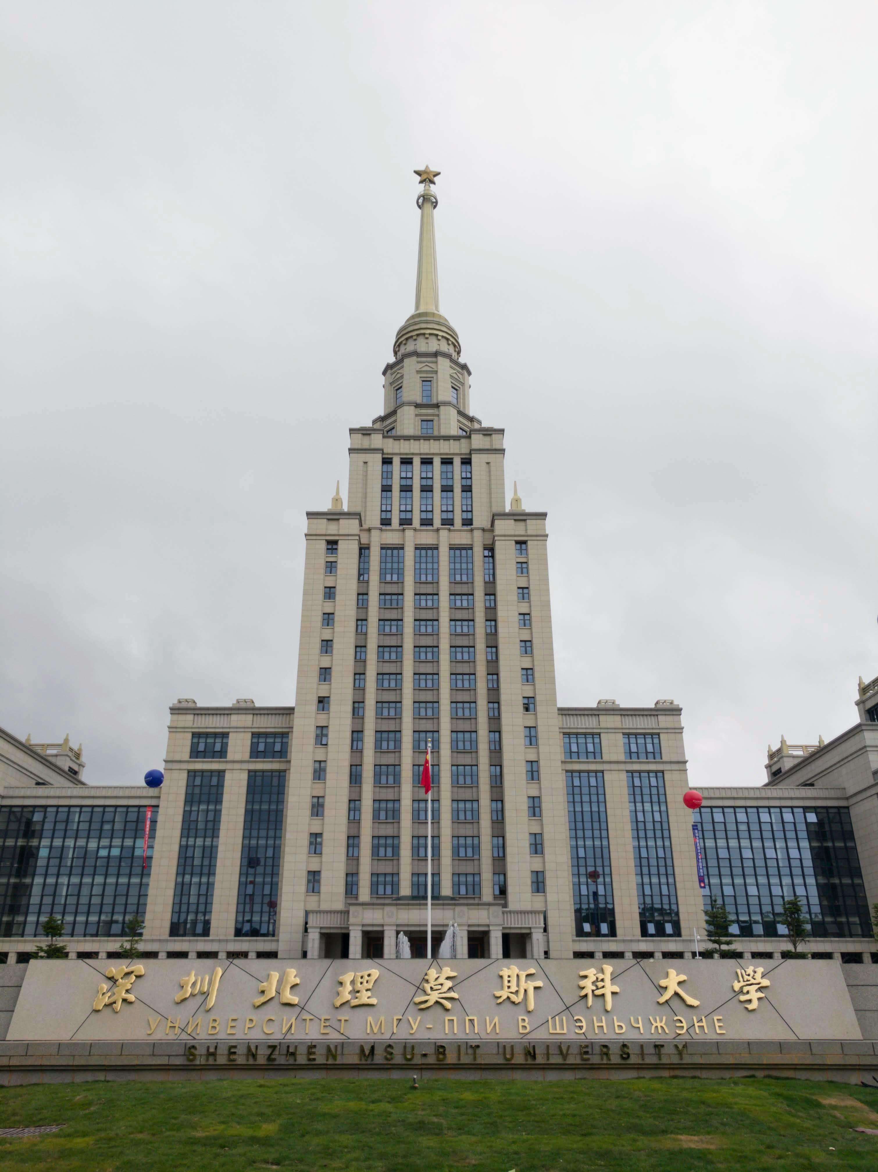 Gate of the Campus of Shenzhen MSU-BIT University